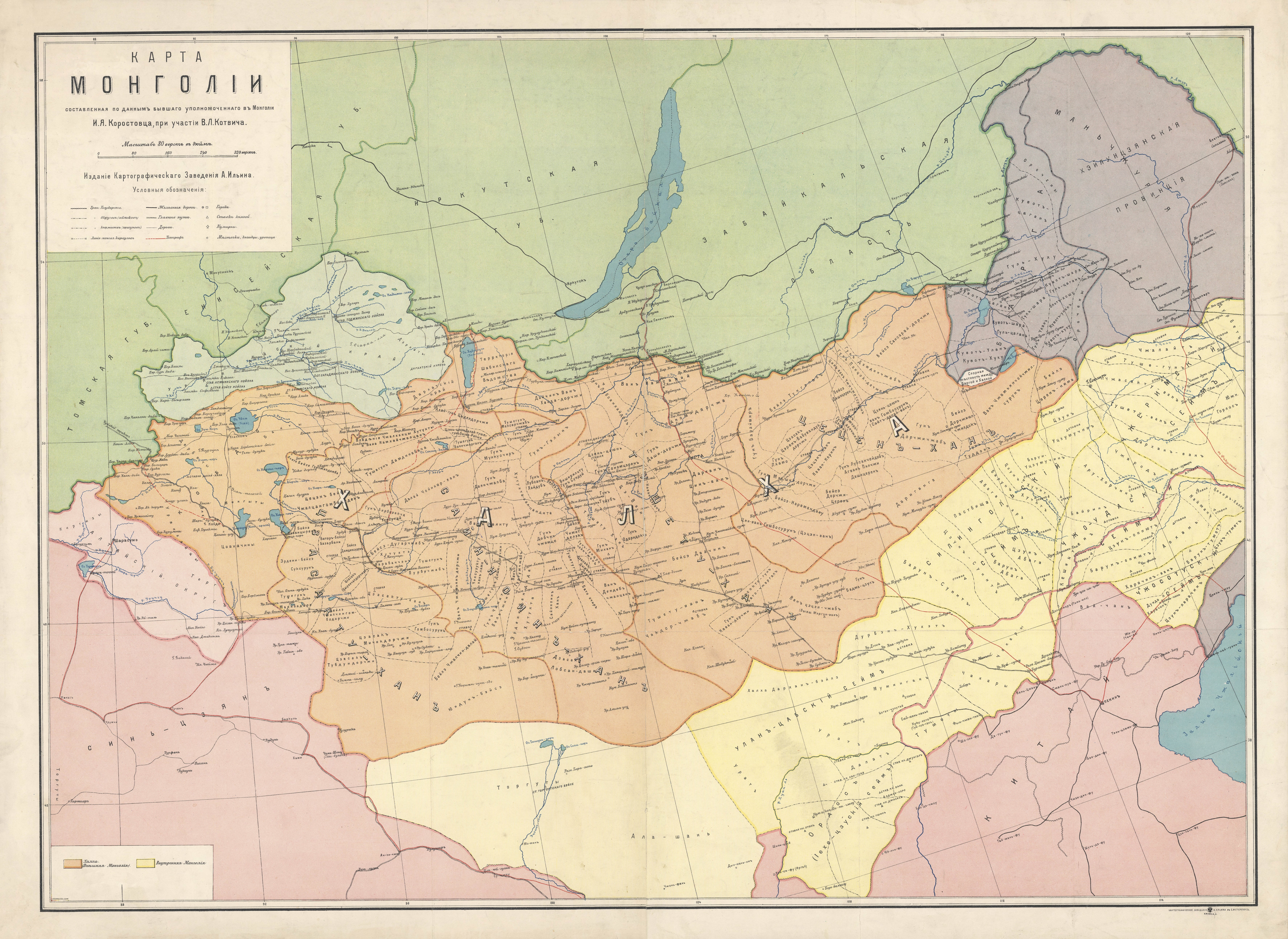 Map of Mongolia (1914). Ilyin's Cartographic Establishment